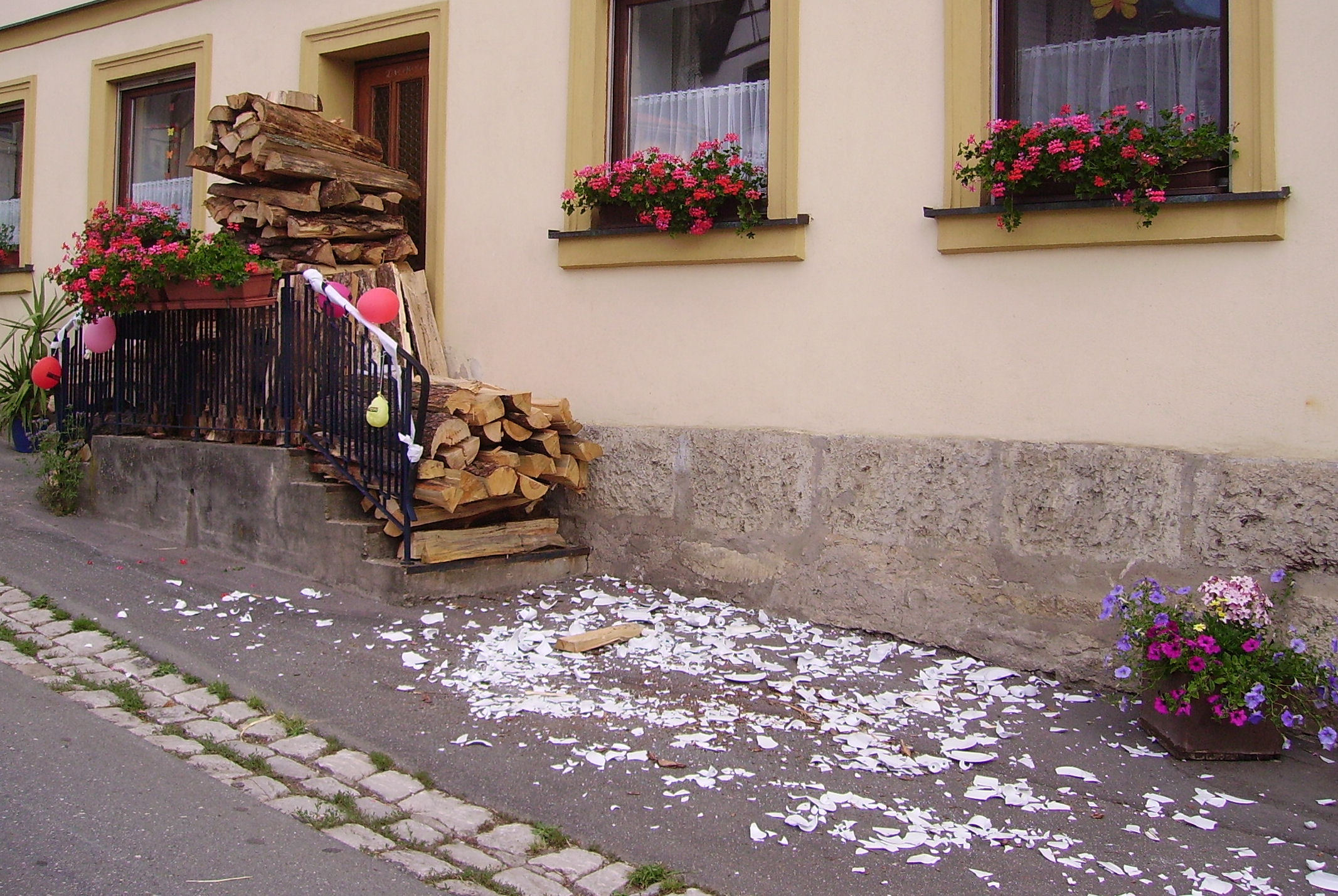 view of Laibarös, part of the municipality of Königsfeld